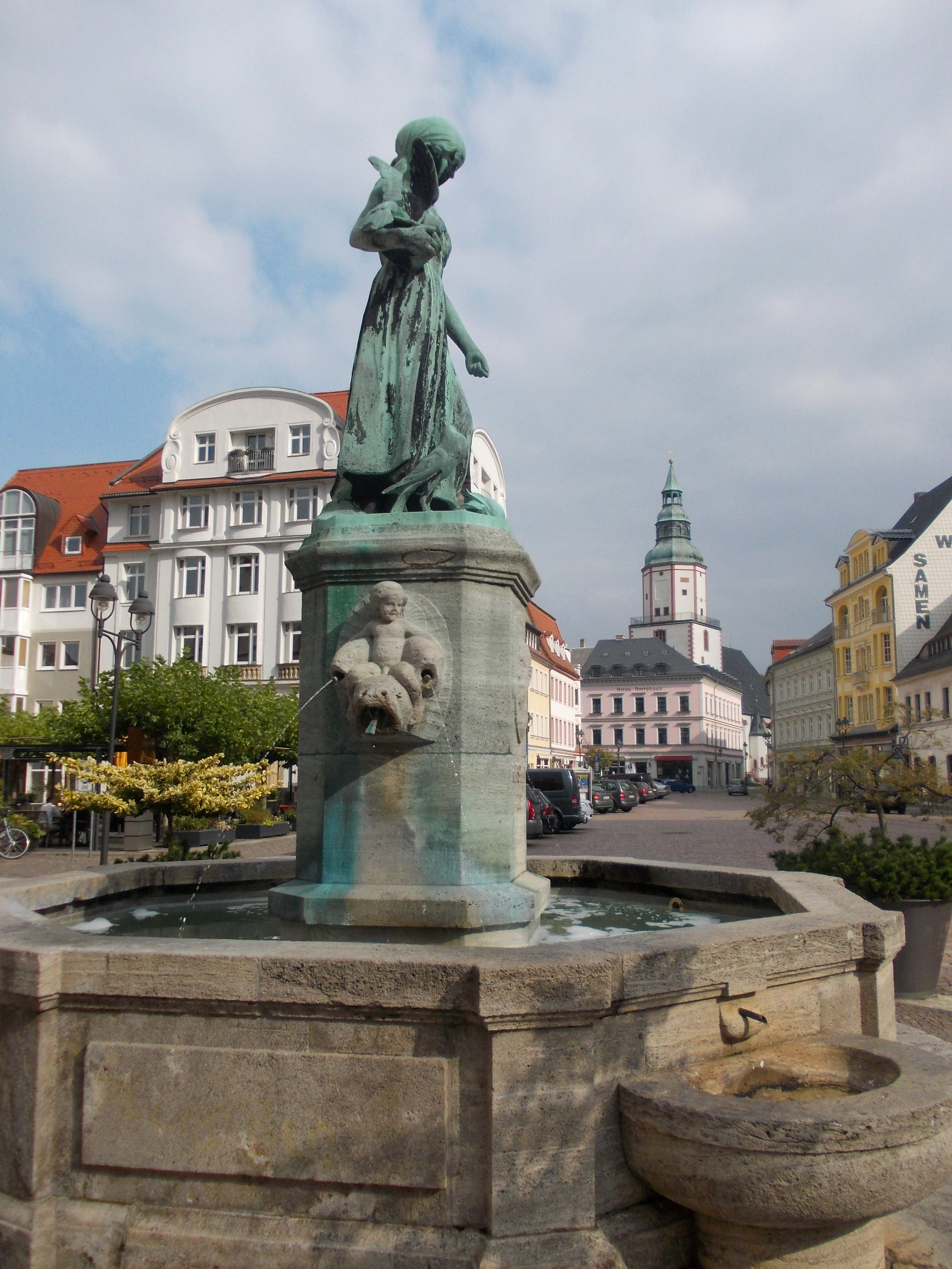 Schlegel Fountain in Döbeln (Mittelsachsen district, Saxony)